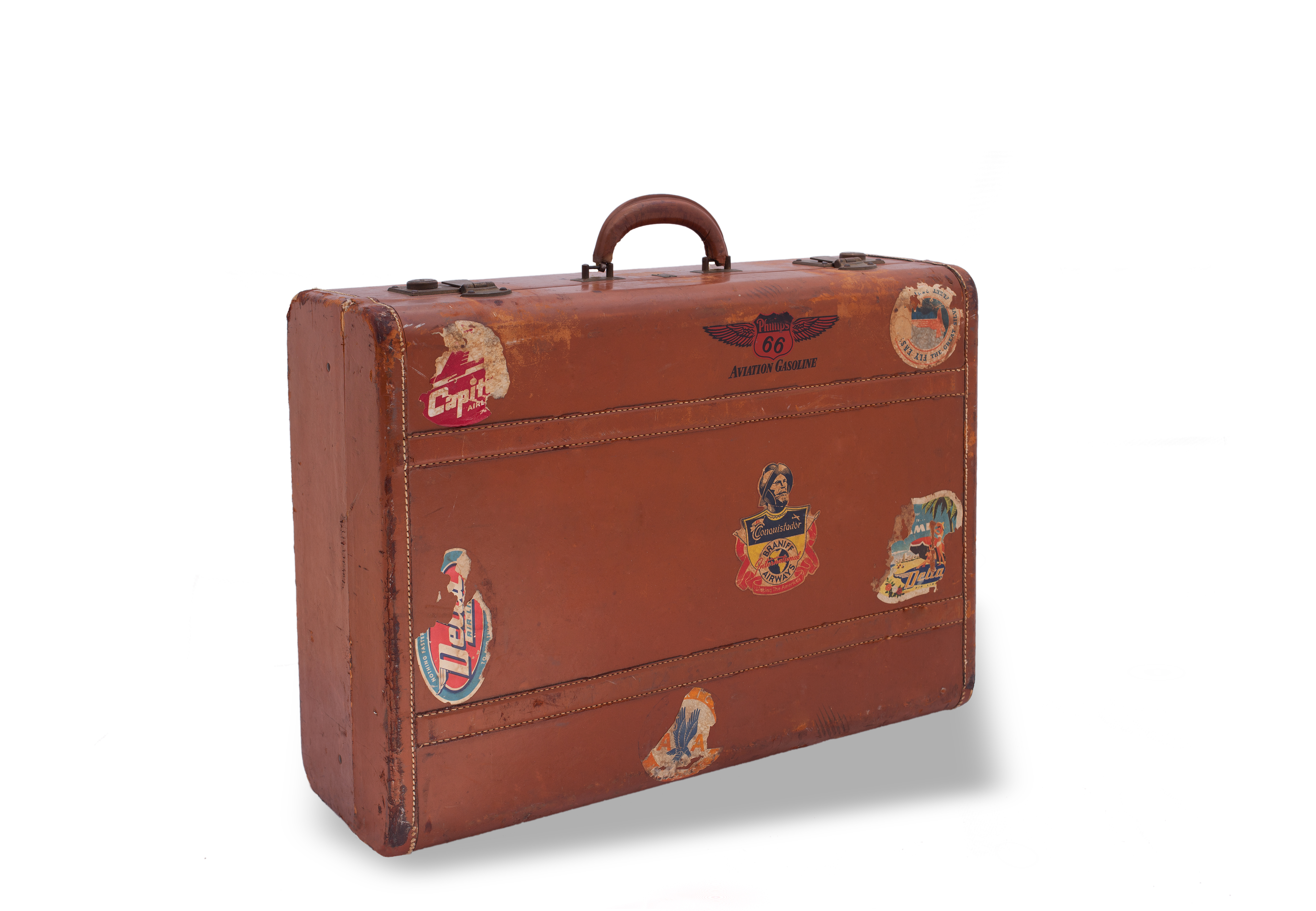 Belber vintage suitcase with original stickers